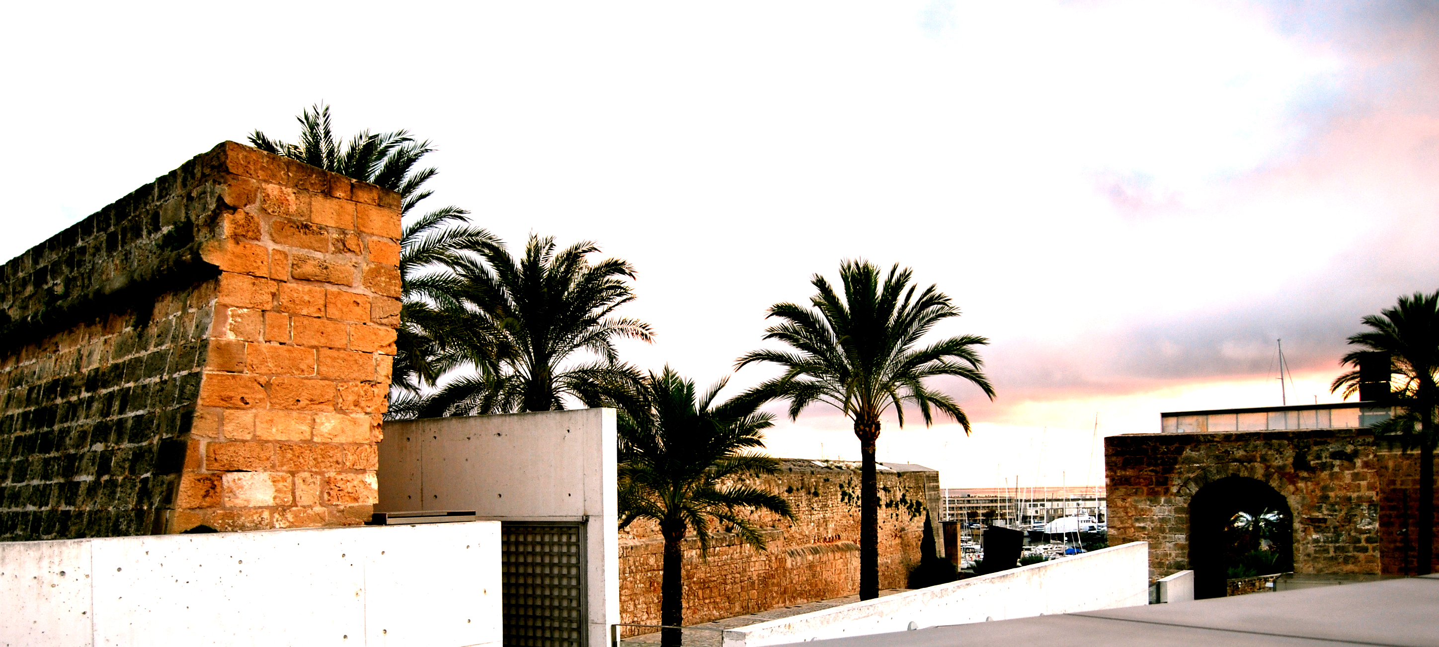 Picture of the museum Es Baluard (Majorca) interior terrace, with sculptures, parts of the new building connected to the old bastion of the 16th century and the Palma Bay in the background.